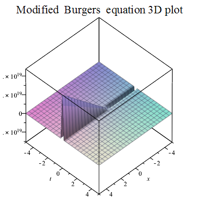 Modified Burgers equation 3D plot